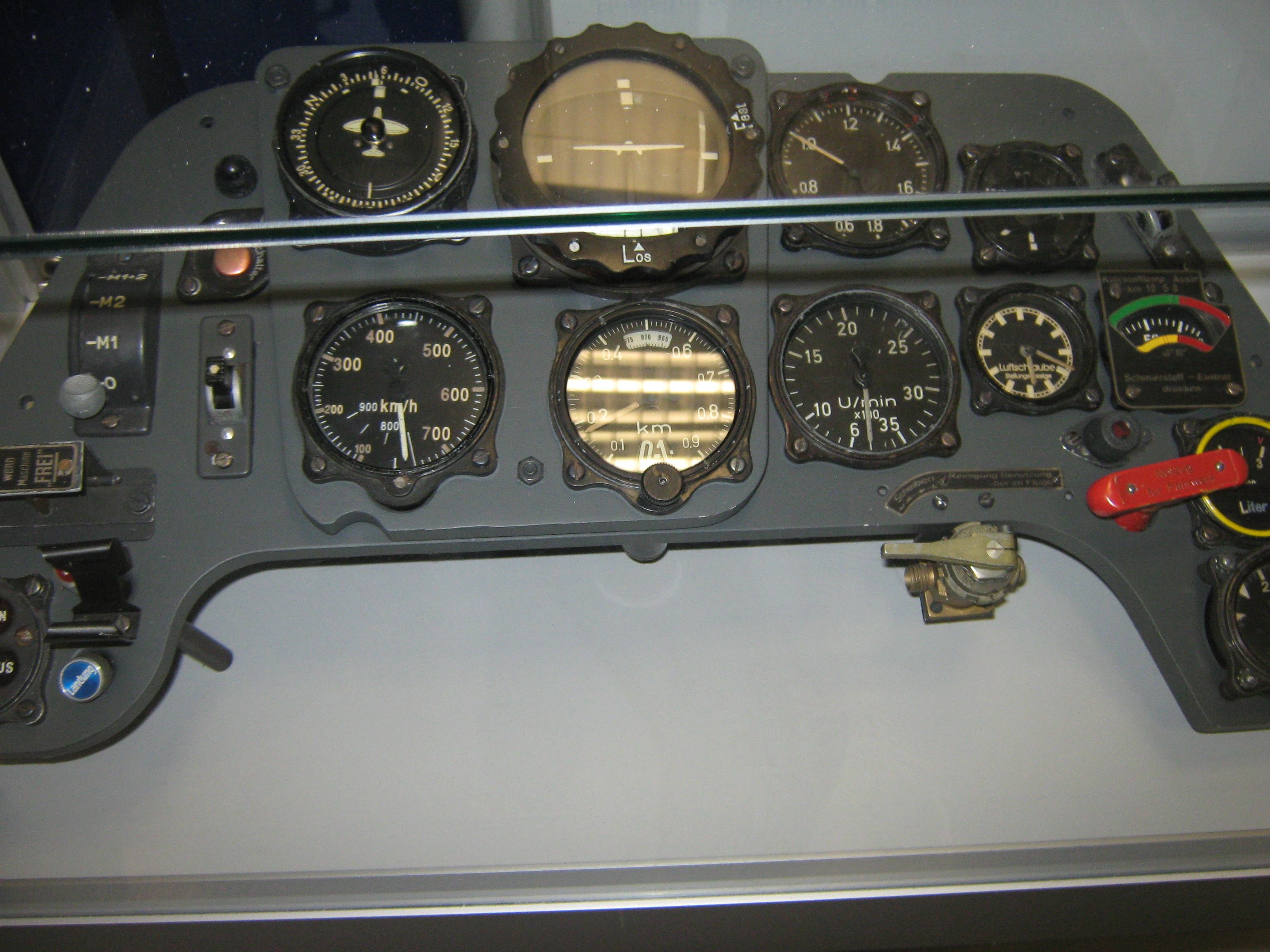 Messerschmitt Bf 109 control board.